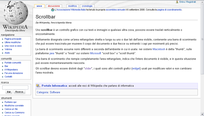 vertical scrollbar